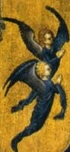 Last Judgement, detail